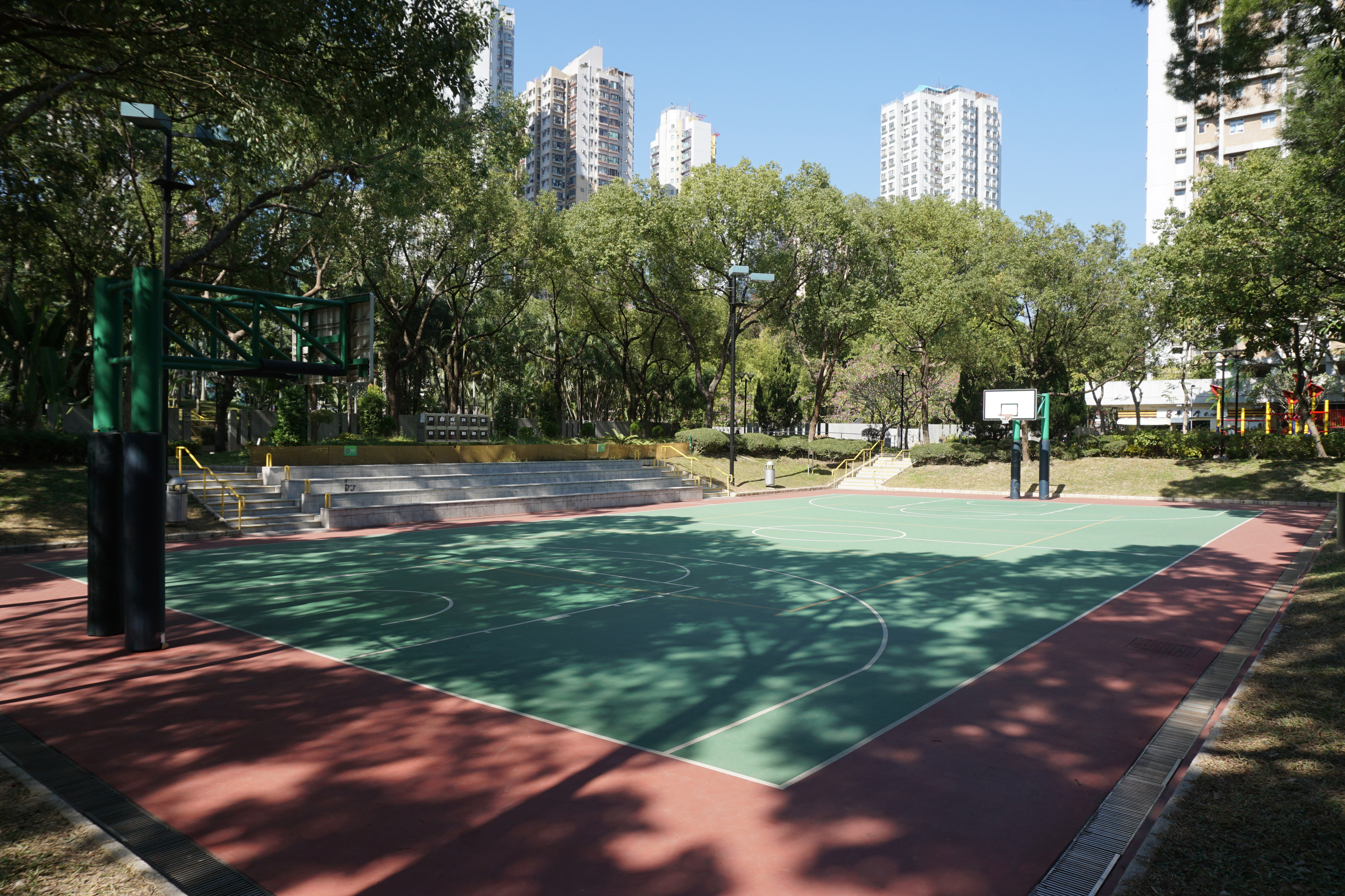 Old Market Playground in Tai Po, Hong Kong.